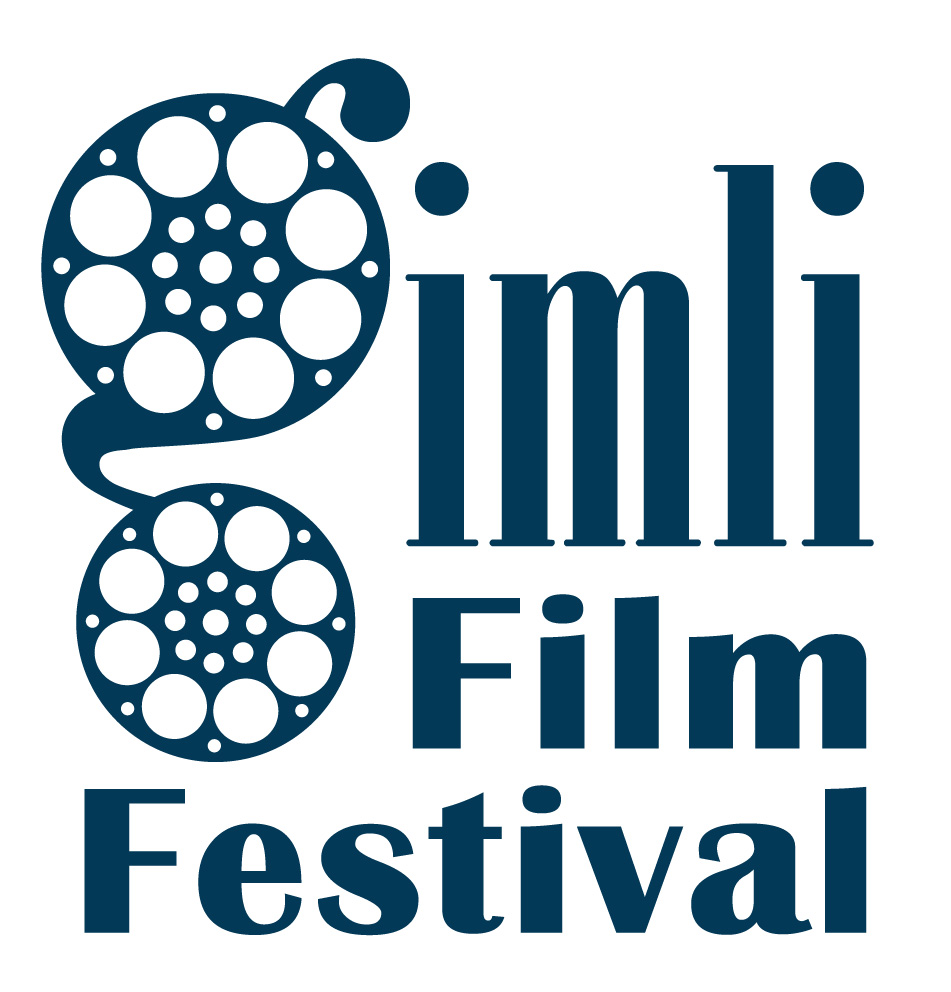 Gimli Film Festival Logo